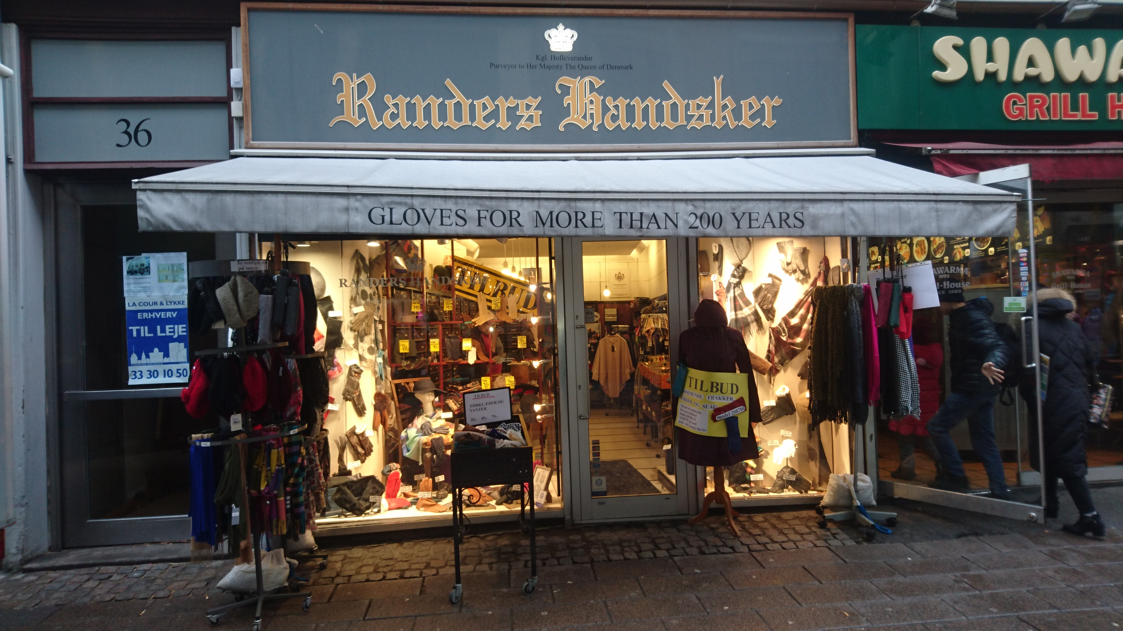 Store of the Danish glove manufacturing company, Randers Handsker.